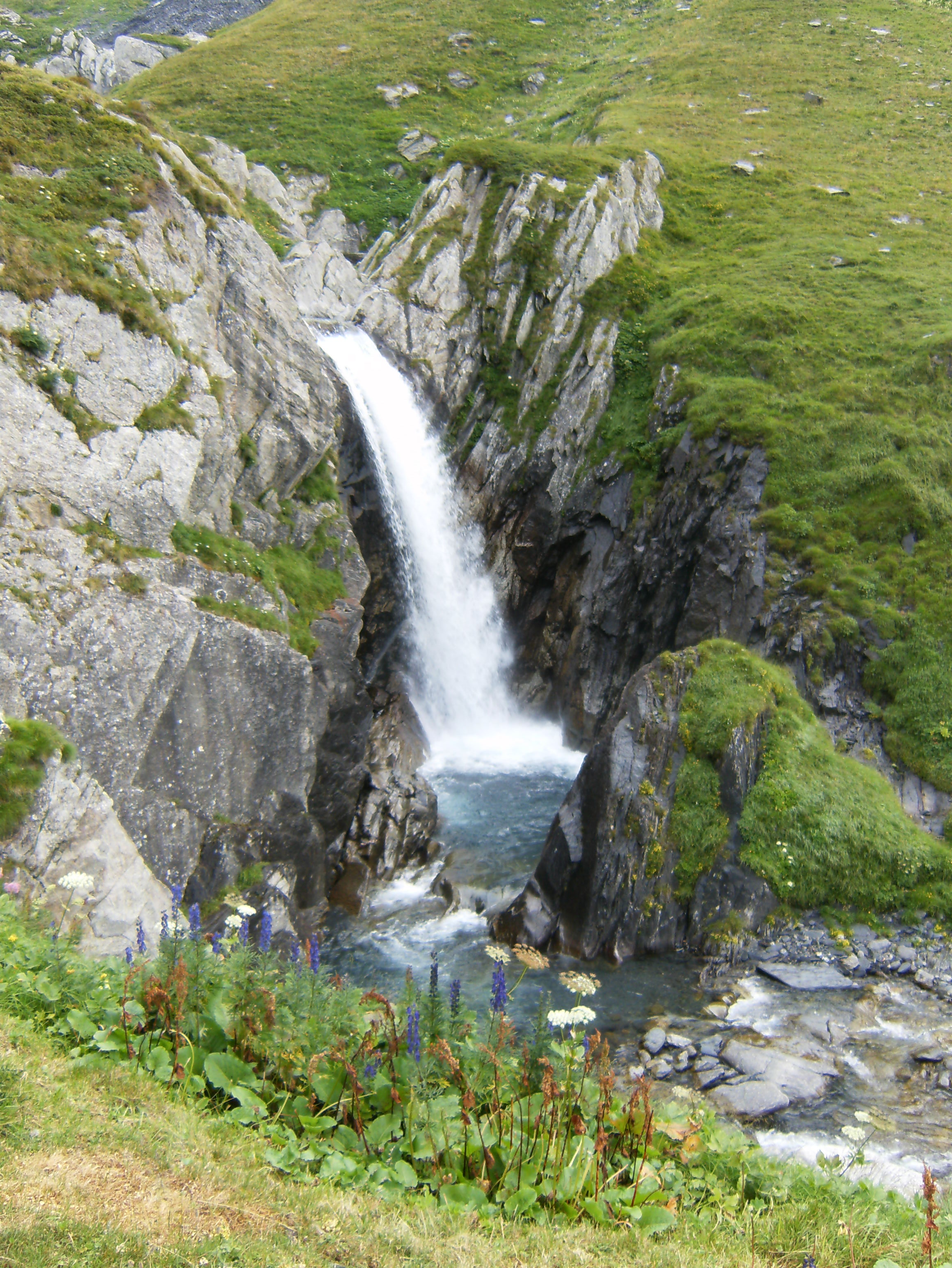 Brenno; around 1,900 m; Ticino; Switzerland. Below Brenno della Greina and below Scaletta Hut (2,205 m, Federazione Alpinistica Ticinese [FAT]). South of the continental divide.